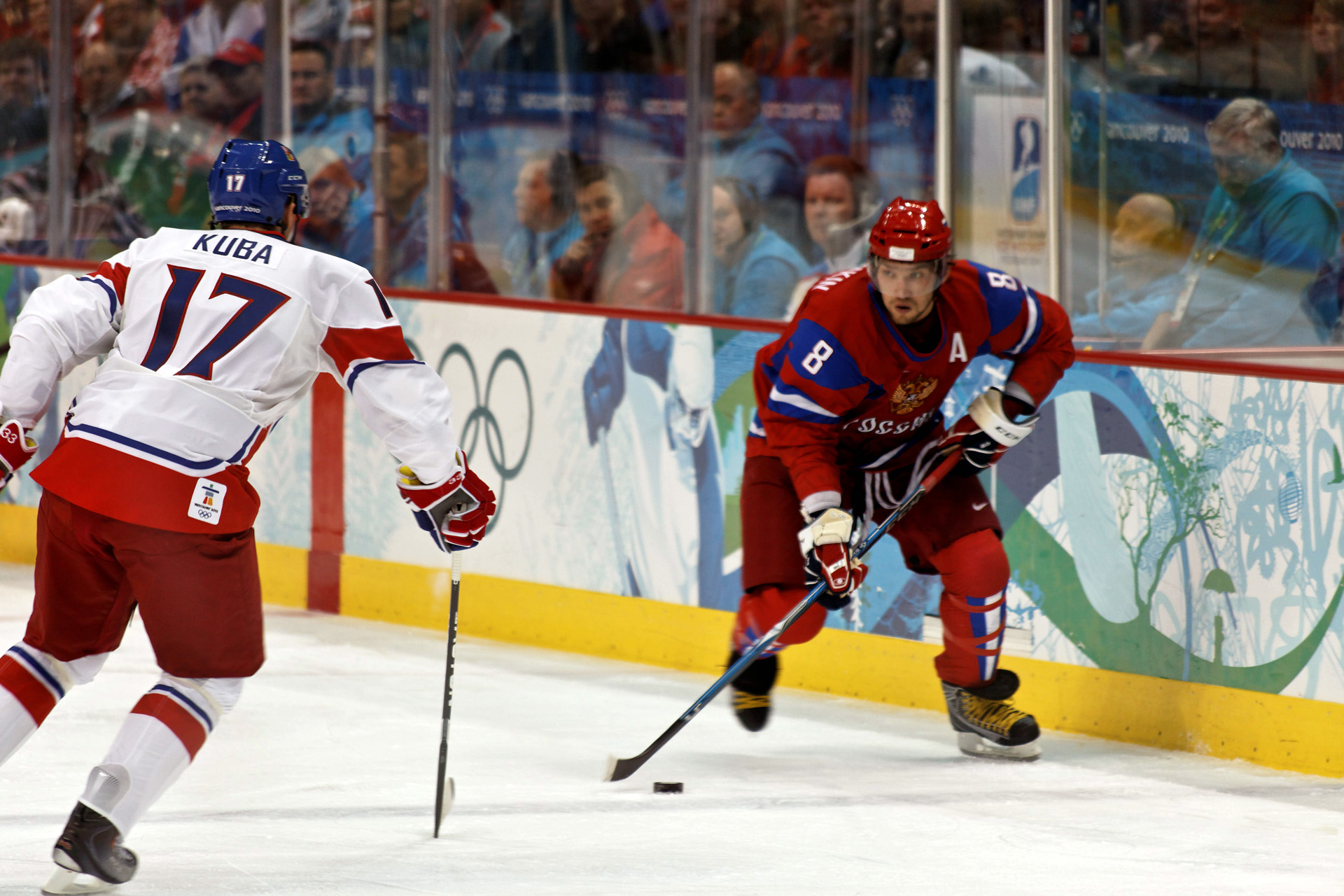 Russia forward Alexander Ovechkin moves the puck in as Czech Republic defenceman Filip Kuba (#17, left) moves in to defend during the 2010 Winter Olympics